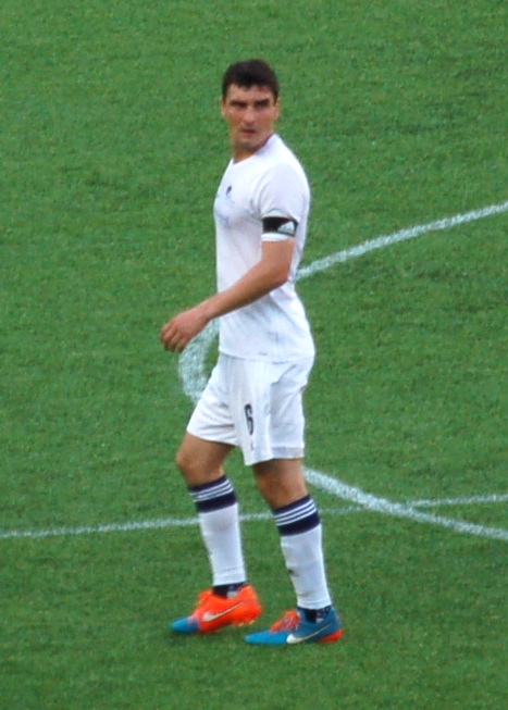 Also, Bobby Warshaw, Mathew Bolduc, and Liam Doyle of Harrisburg City Islanders. Taken during a match between FC Cincinnati and Harrisburg City Islanders at Nippert Stadium in Cincinnati on May 28, 2016.